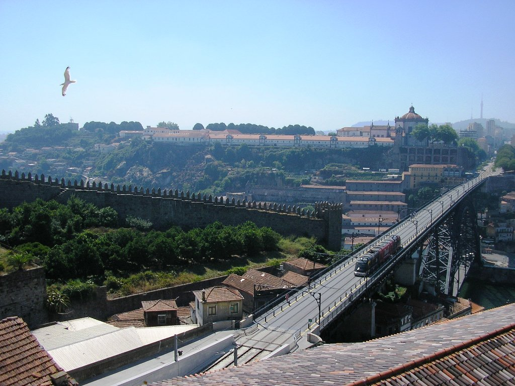 "Muralhas Fernandinas", medieval city walls in Porto, Portugal.